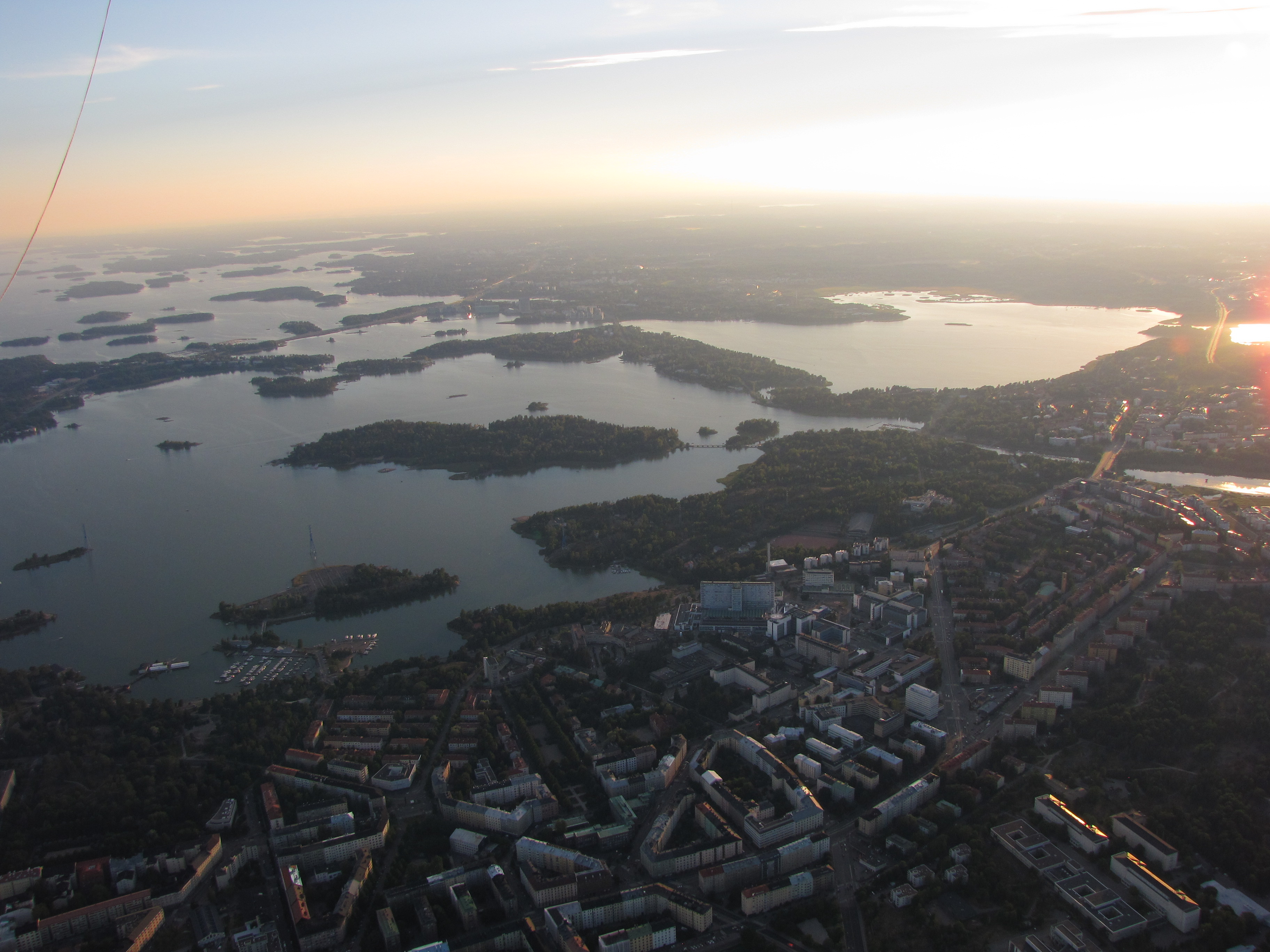 Laajalahti bay and Seurasaarenselkä photographed from a hot air balloon above Helsinki, seen towards Espoo. The picture shows the multiple islands typical of the coast line.